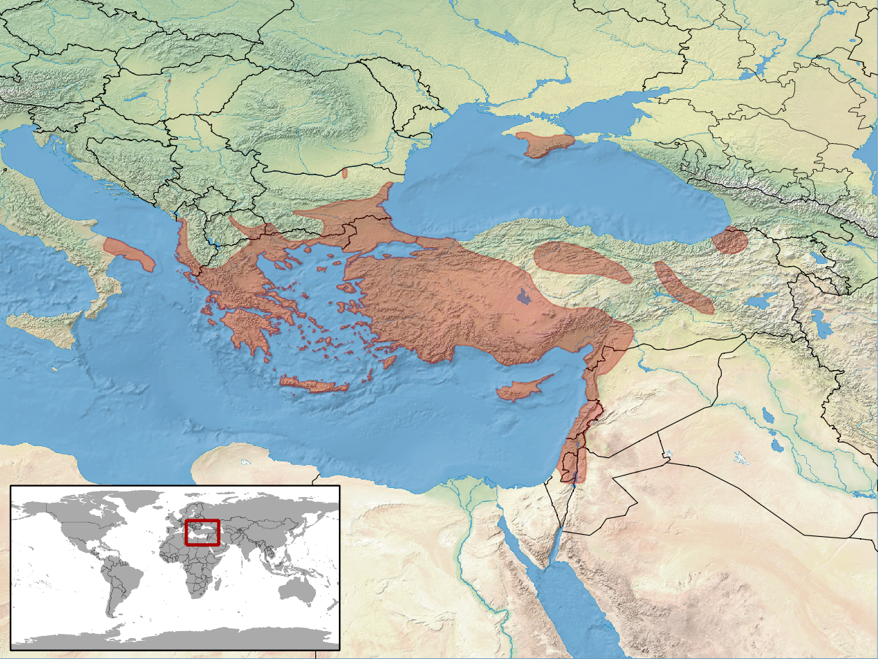 geographic distribution of Mediodactylus kotschyisyn Cyrtopodion kotschyi (Native: Albania; Bulgaria; Cyprus; Greece; Israel; Jordan; Lebanon; Macedonia, the former Yugoslav Republic of; Serbia (Serbia); Syrian Arab Republic; Turkey; Ukraine / Introduced: Hungary; Italy)